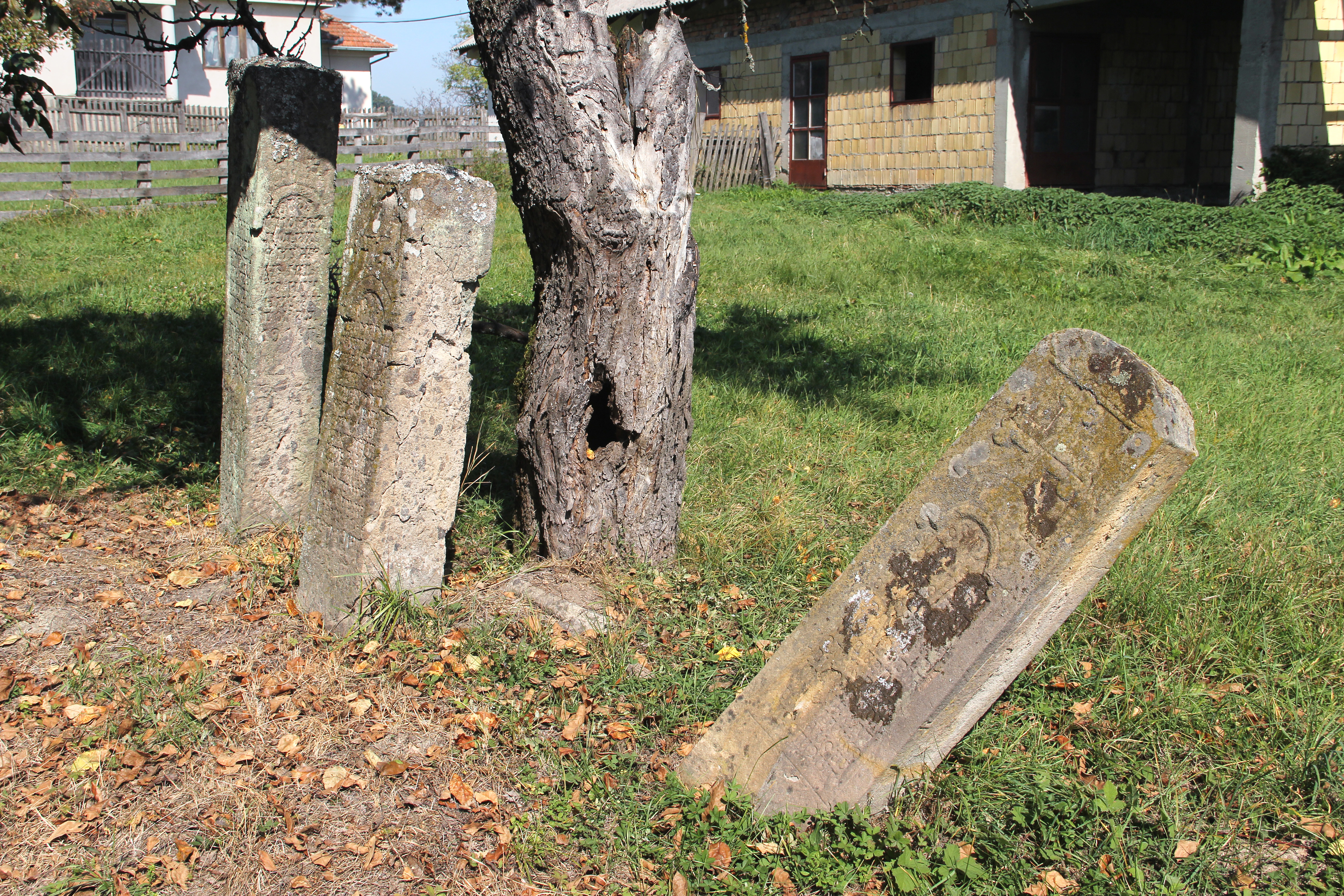 Roadside tombstones in the village of Donji Branetici (municipality of Gornji Milanovac), Serbia.